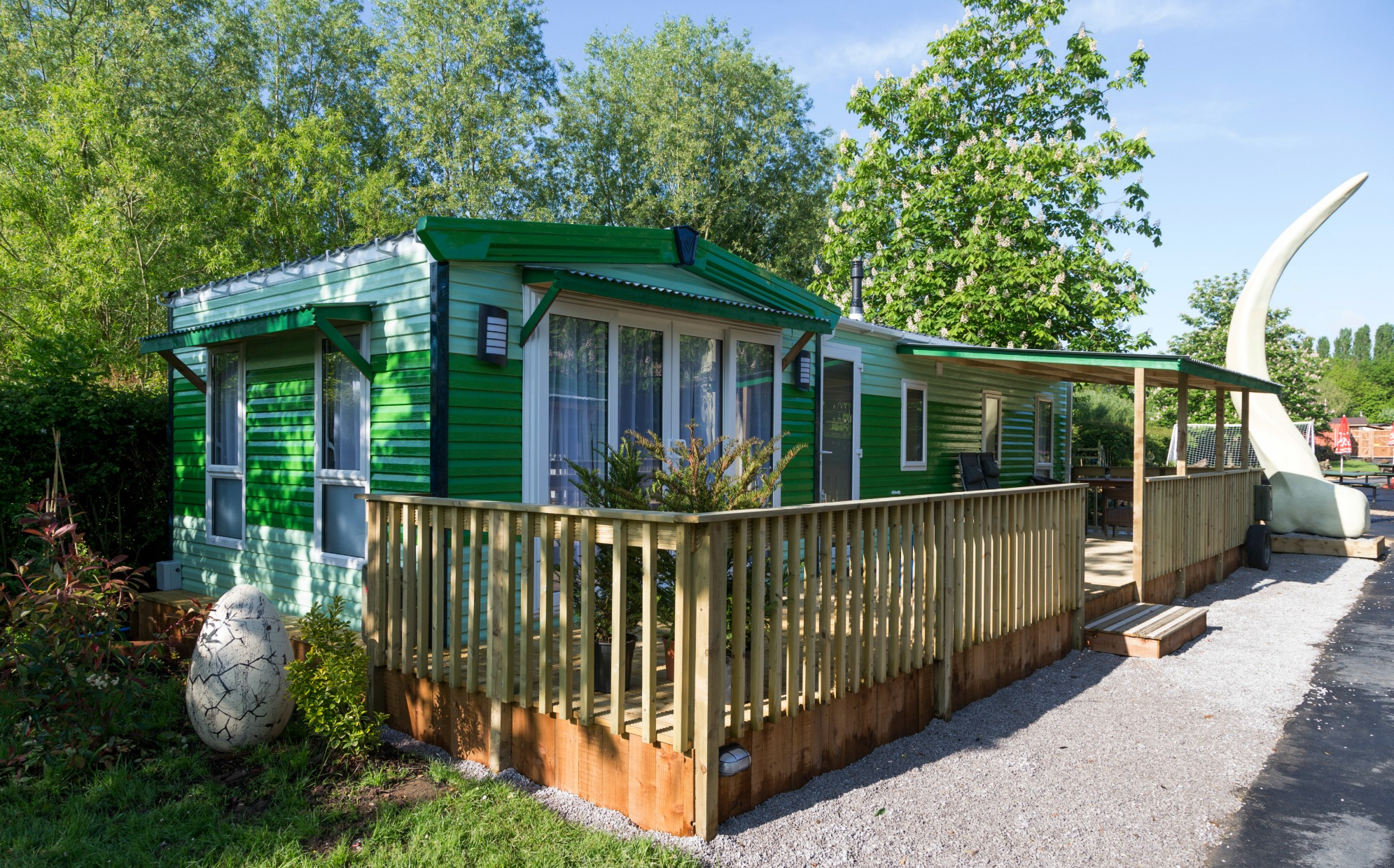 Lost World Cabins at Milton Keynes